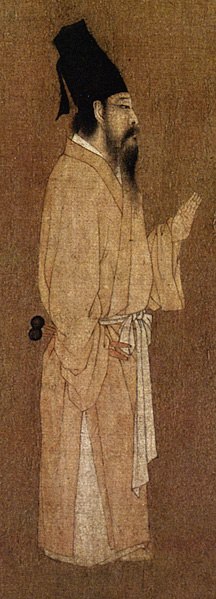 Close-up detail of the Chinese painting Night Revels, handscroll, ink and colors on silk, 28.7 x 335.5 cm.